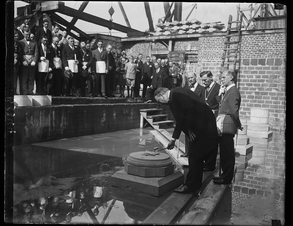 Gavel used George Washington in laying corner-stone of U.S. Capitol again serves in dedication of dtone at Washington Cathedral. Using the famous Washington gavel, which served at the laying of the cornerstone of the United States Capitol, the Right Rev. James E. Freeman, Bishop of Washington, dedicates a memorial stone contributed to Washington Cathedral by the Potomac Kasonic Lodge of Georgetown, the oldest Masonic Lodge in the country. Members of the fraterna' order attended in regalia as the ceremonies were a feature of the lodge's commemoration of the 140th anniversary of its founding